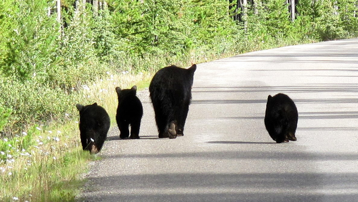 Zwarte beren op wandel langs de weg bij Jasper, Alberta, Canada